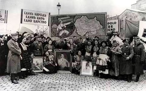 Bulgarian Macedonians in Sofia posing with German soldiers after the invasion in Yugoslavia in March 1941.